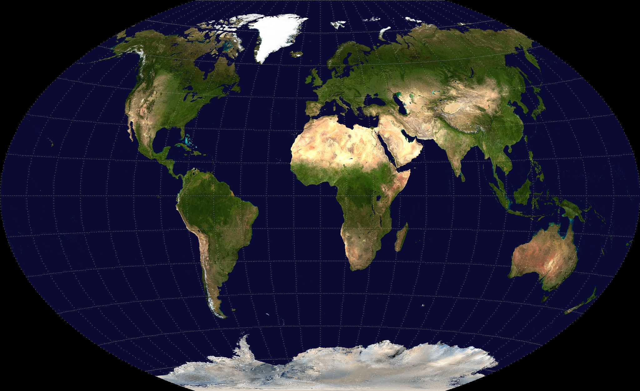 A Winkel Tripel projection of a Visible Earth image collected by the Earth Observatory experiment of the U.S. Government's NASA space agency. The reticle is 15 degrees in latitude and longitude.